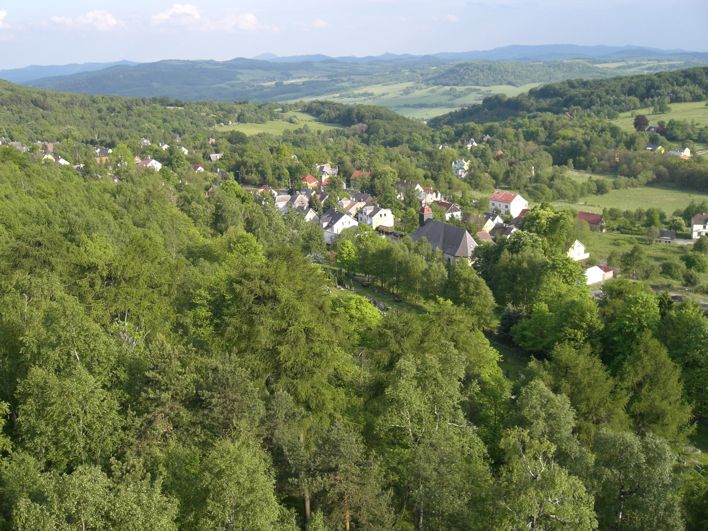 Tisá village, Czech Republic.